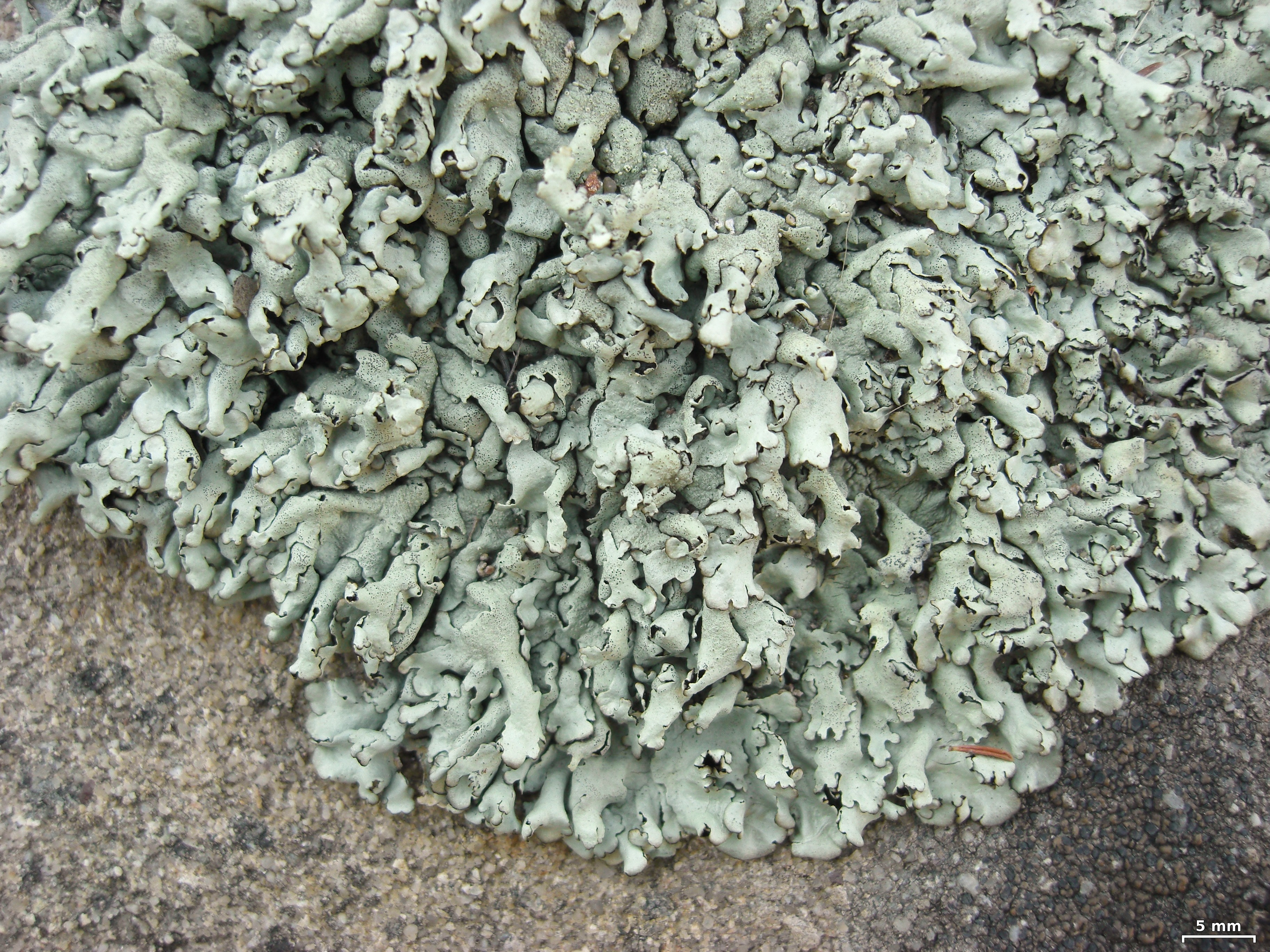 Castro Crest, Santa Monica Mts, southern California, 20110928